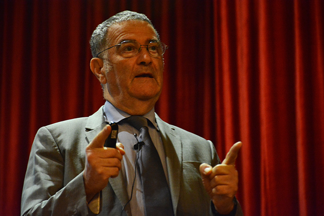 Serge Haroche giving a Lecture at Techfest, IIT Bombay